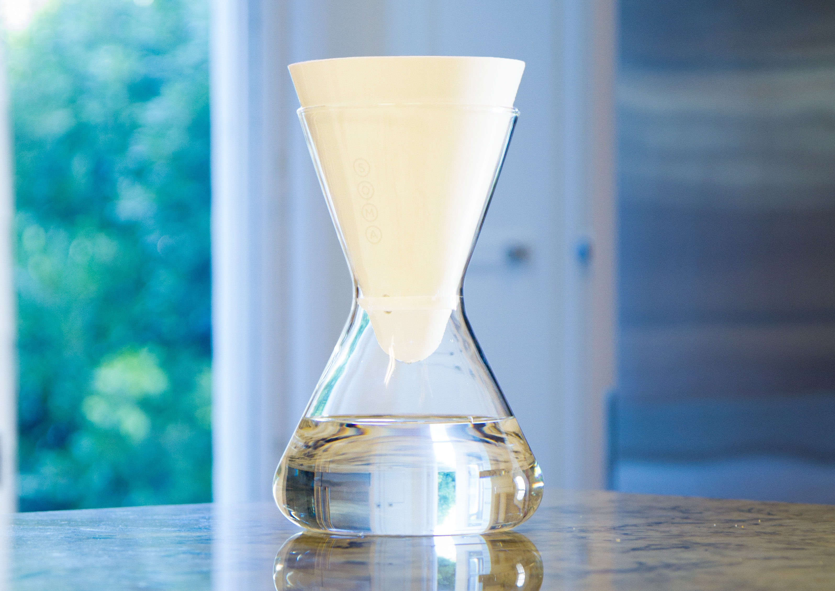 This is a picture of the Soma water filter carafe